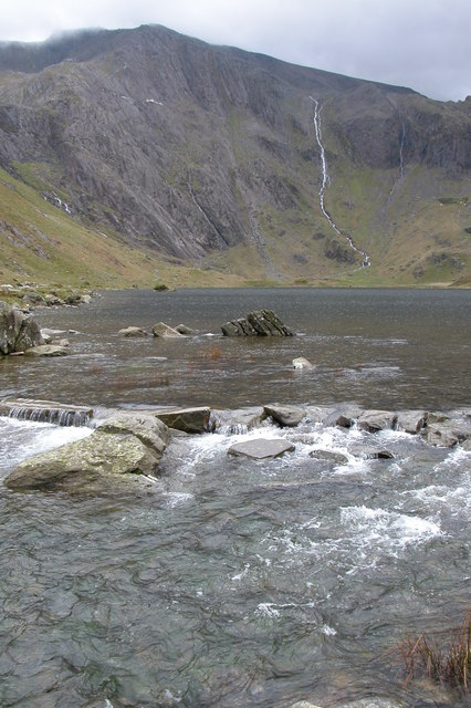 Glyder Fawr. Viewed from the outflow of Llyn Idwal